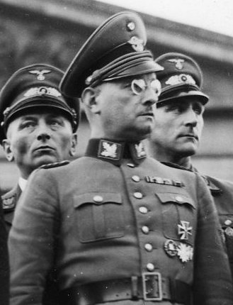 1942/09/25-27. RA/RAFA-3309/U 41A/6 /41-6-2 img312 NS holdt til sammen 7 partilandsmøter i 30-årene, men i løpet av perioden 1940-1945 ble det holdt bare ett riksmøte, 8. riksmøte i Oslo 26.-27.09.1942. Anslagsvis 10 000 deltagere fra hele landet samlet seg i hovedstaden til dette partimøtet. Det rikholdige programmet omfattet blant annet store parader der både arbeidstjeneste, kvinner, SS, NSUF, ung- og småhird defilerte, og i Frognerparken ble det holdt en stor minnemarkering for de falne. Avslutningsarrangementet fant sted på Bislet stadion. NS (the Norwegian Fascist party) held a total of seven party congresses in the 30s, but during the period 1940-1945 there was just one national meeting, the 8th national meeting in Oslo on September 26th and 27th 1942. An estimated 10,000 participants from across the country gathered in the capital for this party meeting. The extensive program included the major parades in which both labor service, women, SS, NSUF, and young party members paraded. There was a large memorial ceremony for the fallen in the Vigeland Park. The closing ceremony took place at Bislett Stadium.